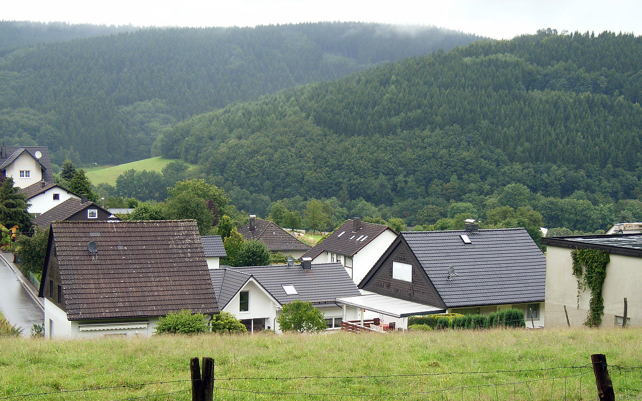 view of Bünghausen, district of Gummersbach, North-Rhine Westphalia, Germany